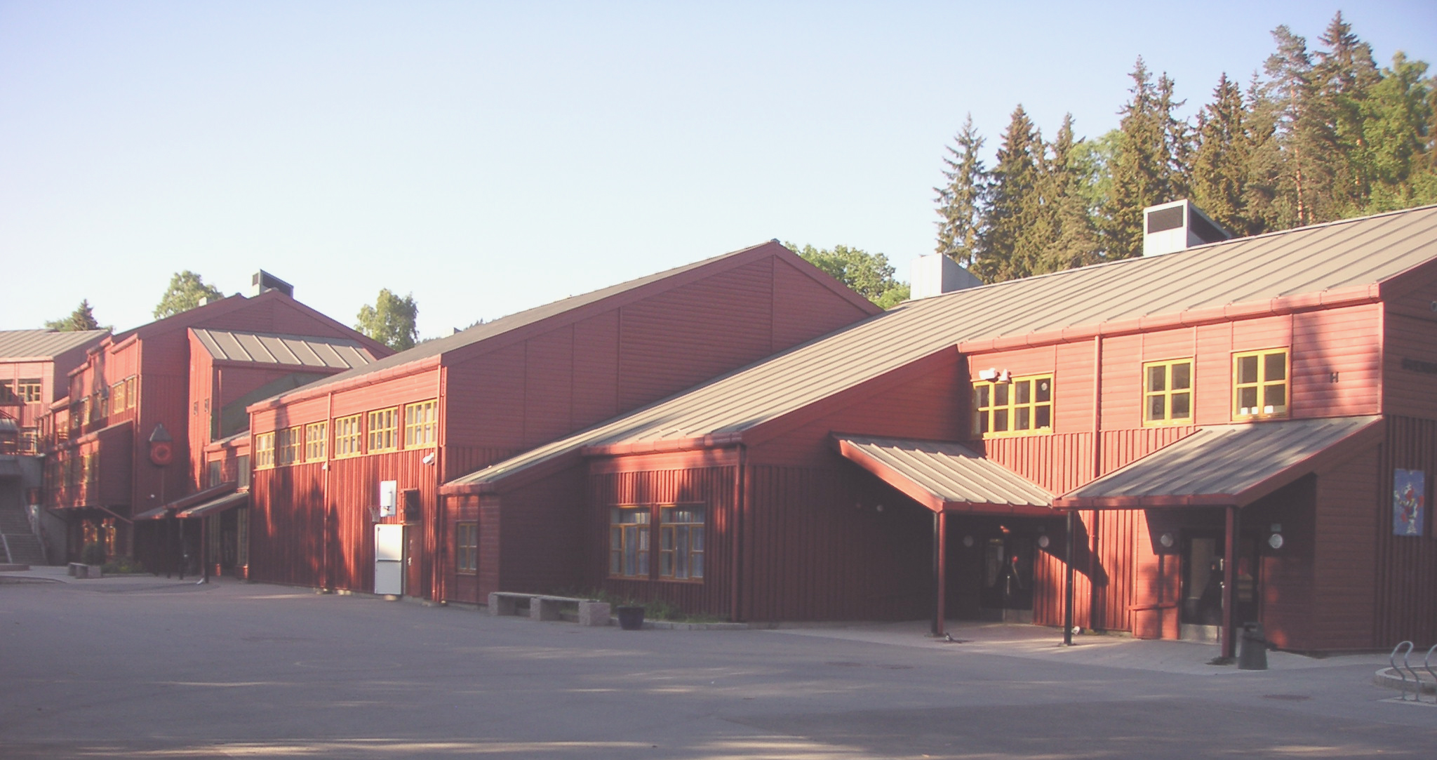 Svendstuen elementary school in Oslo, Norway